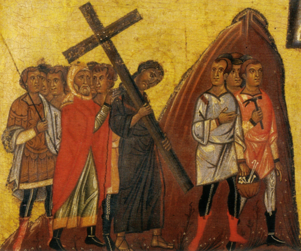 Painted crucifix Cross 434 detail